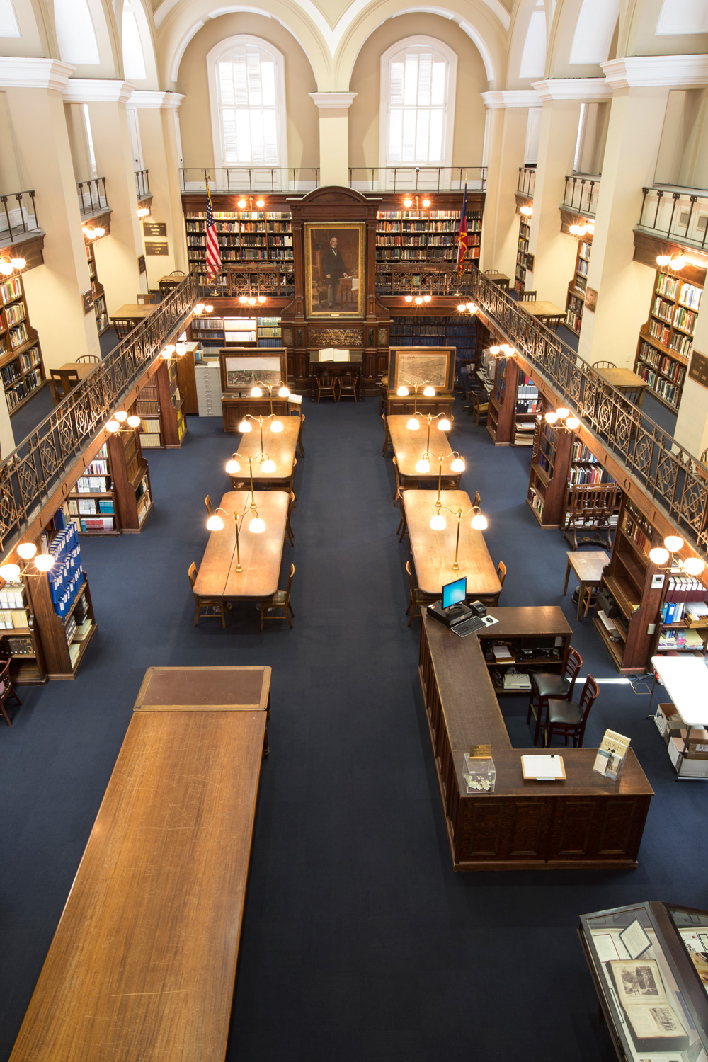 The Research Center's Reading Room, Hodgson Hall